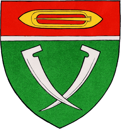 Coat of arms of Gramatneusiedl, Lower Austria